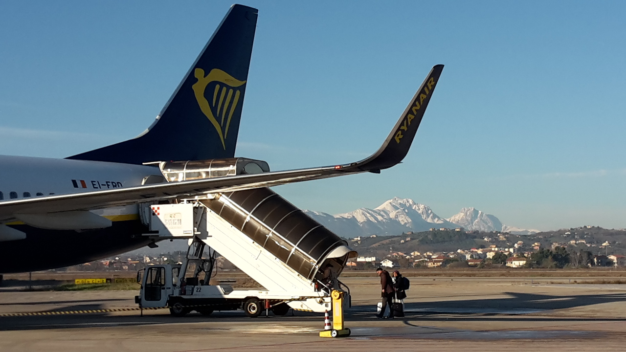 View on Mt. Gran Sasso (2912 m) from Abruzzo Airport's apron 1.